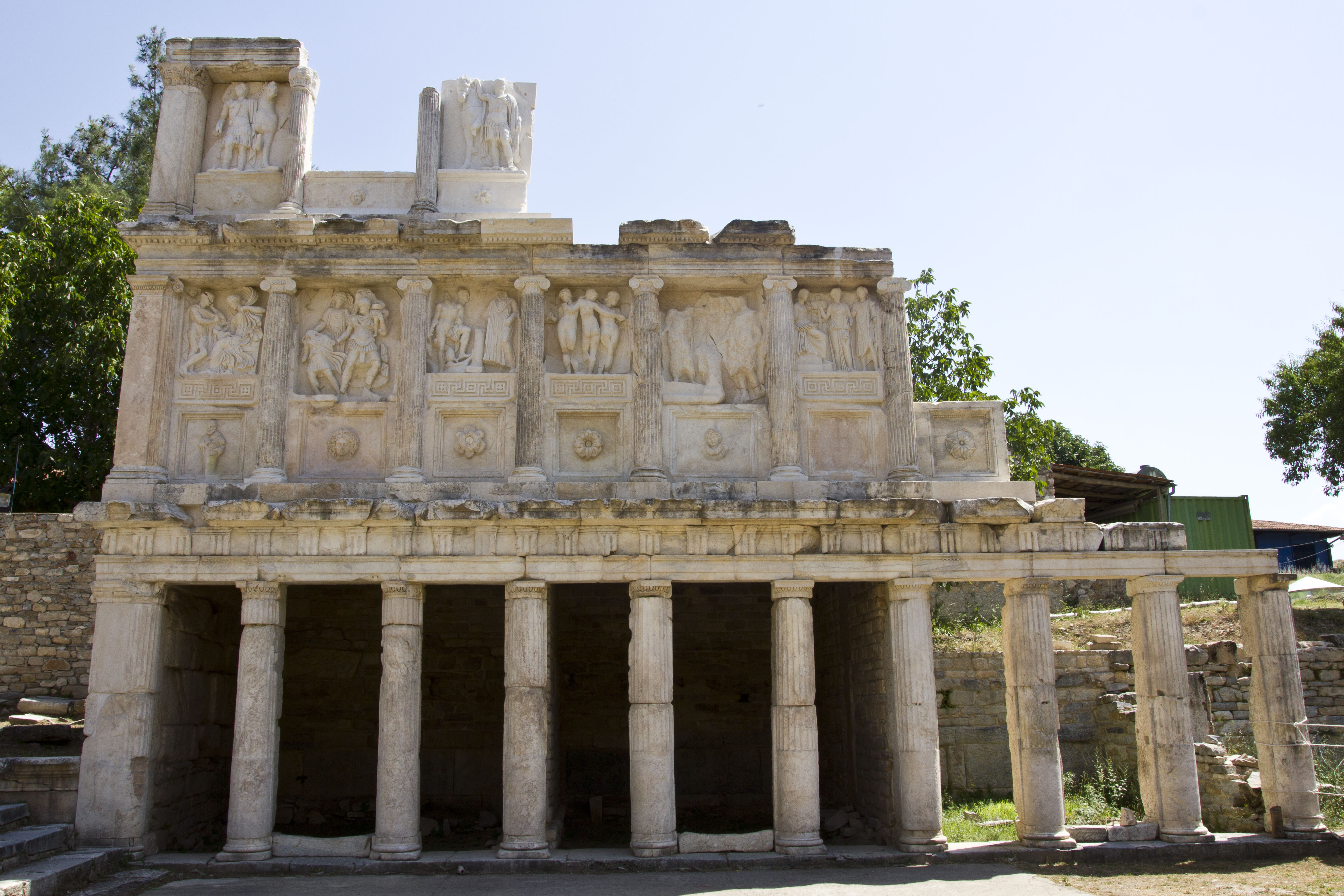 The Sebasteion, excavated in 1979-81, was a grandiose temple complex dedicated to Aphrodite and the Julio-Claudian emperors and was decorated with a lavish sculptural program of which much survives.